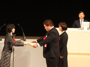 Crown Prince Naruhito and Yasue Funayama, Parliamentary Secretary of Agriculture, Forestry and Fisheries, attended the commendation ceremony at the Omiya Sonic City in Saitama City, Saitama Prefecture on November 17, 2009.(For terms of use, see 農林水産省/リンクについて・著作権.)